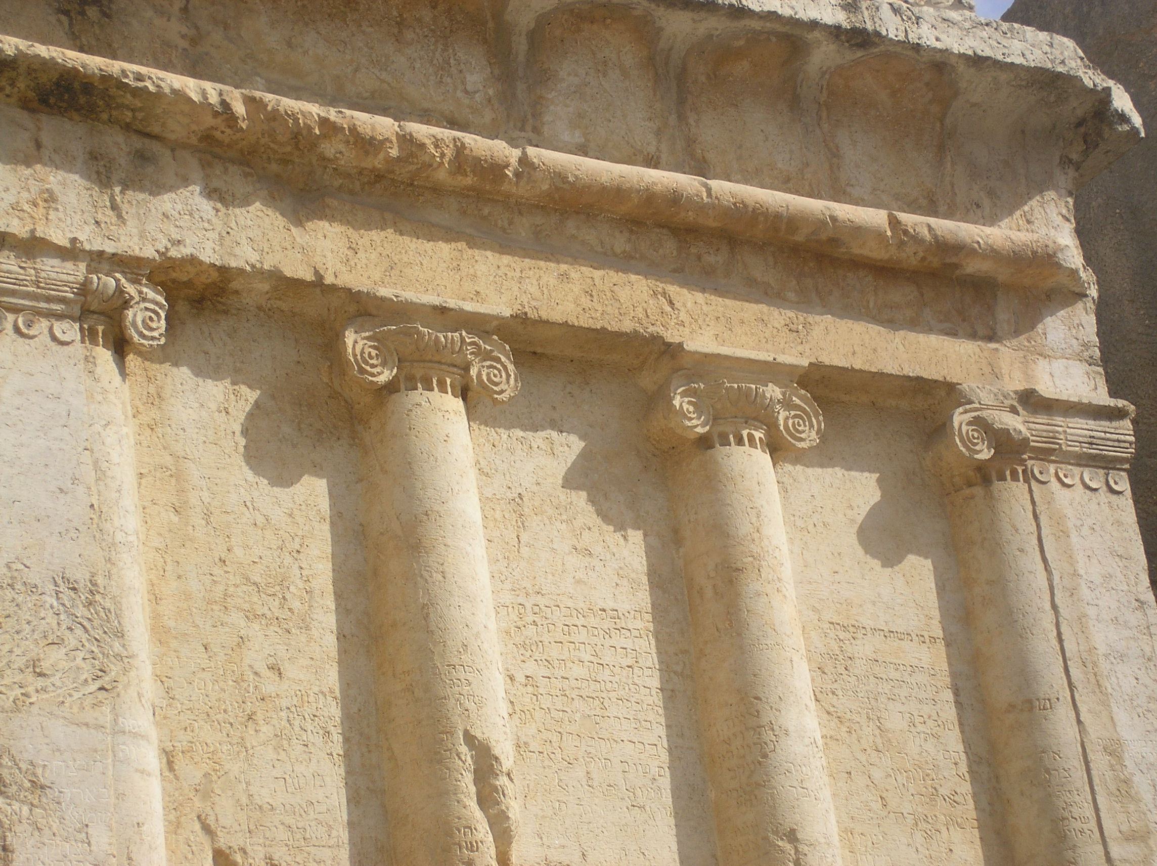 Tomb of Zechariah